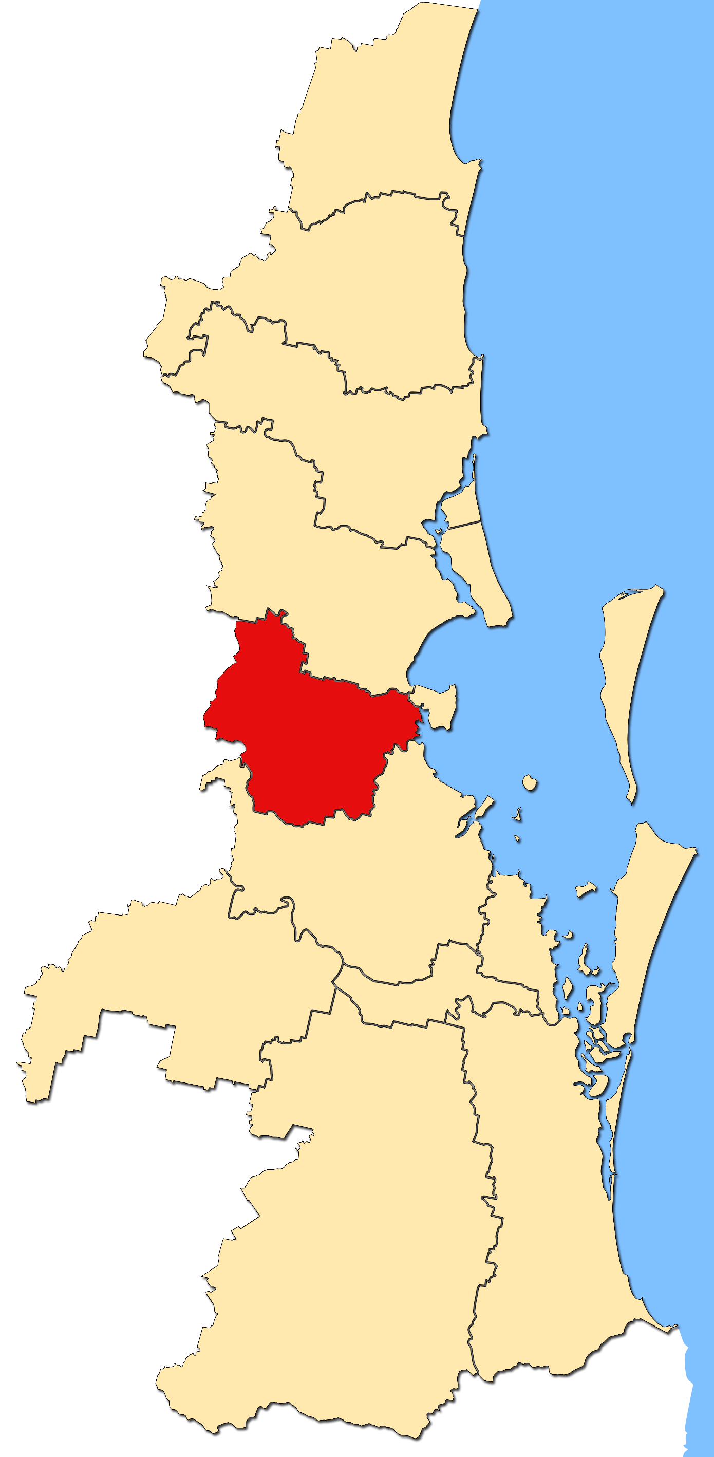 Map of South East Queensland urban local government areas, with Pine Rivers Shire highlighted. Created by MagpieShooter.